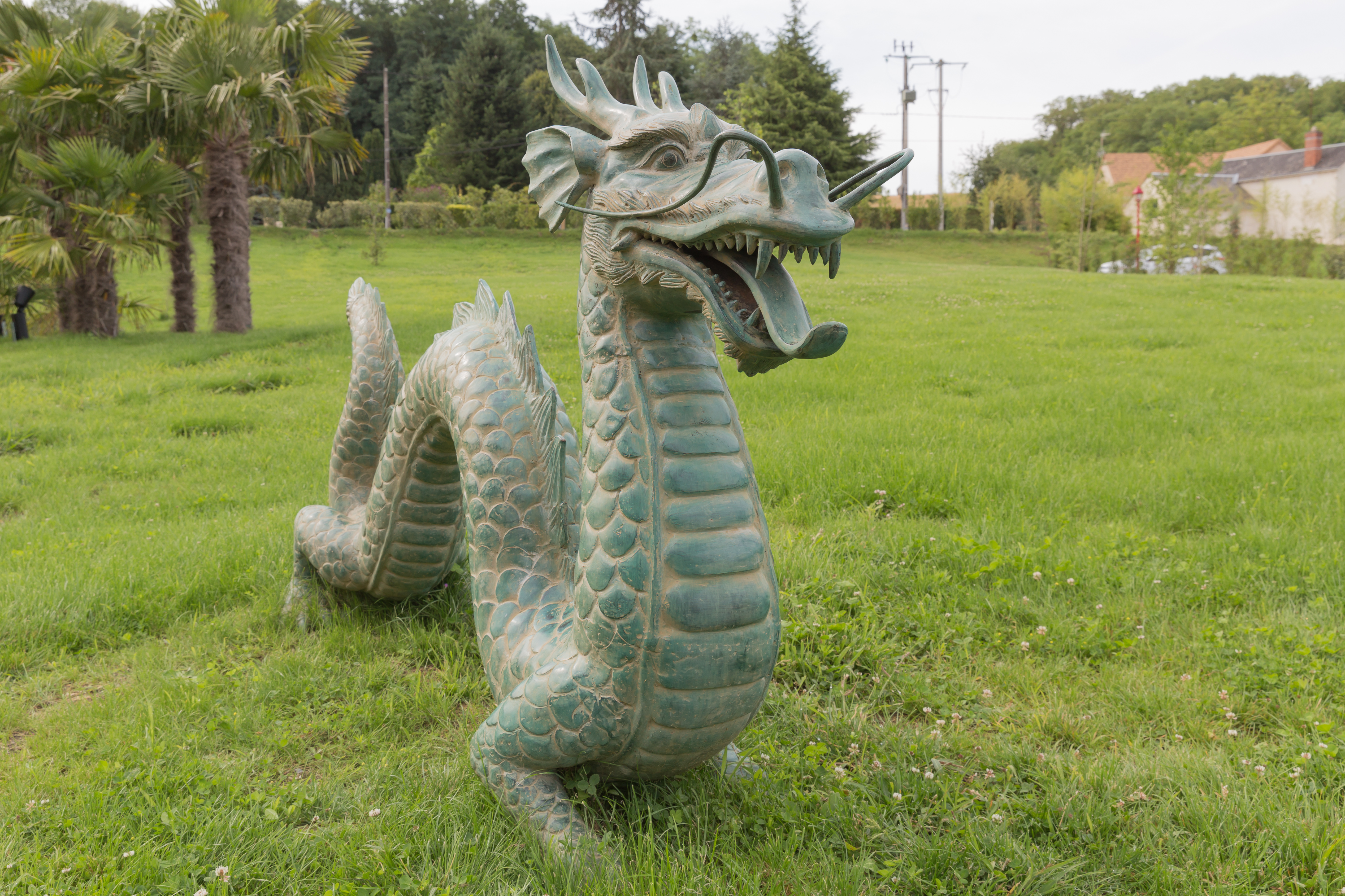 Dragon in the hotel gardens Les Pagodes de Beauval to Seigy, France.